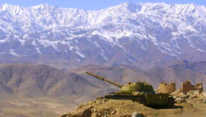 Soviet war in Afghanistan: T-55 at the firing position somewhere in the Afghani mountains. Courtesy of the 5th airborne company trooper Sergey Novikov.